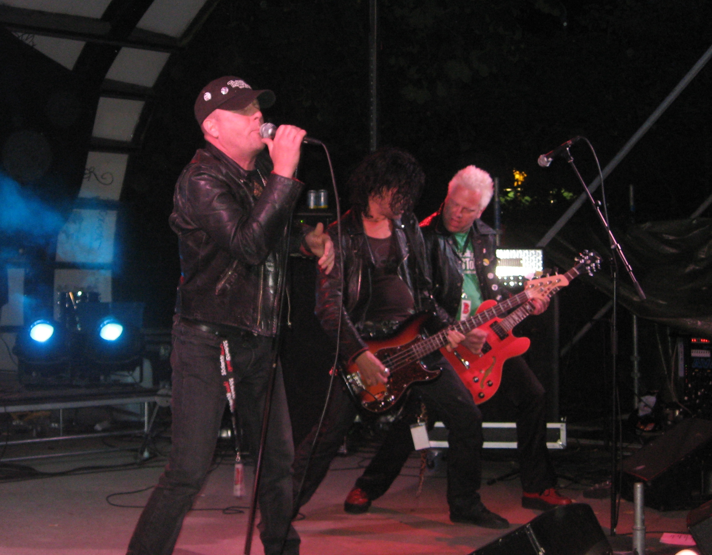 Troublemakers playing at Pretzeltown festival in Södertälje.